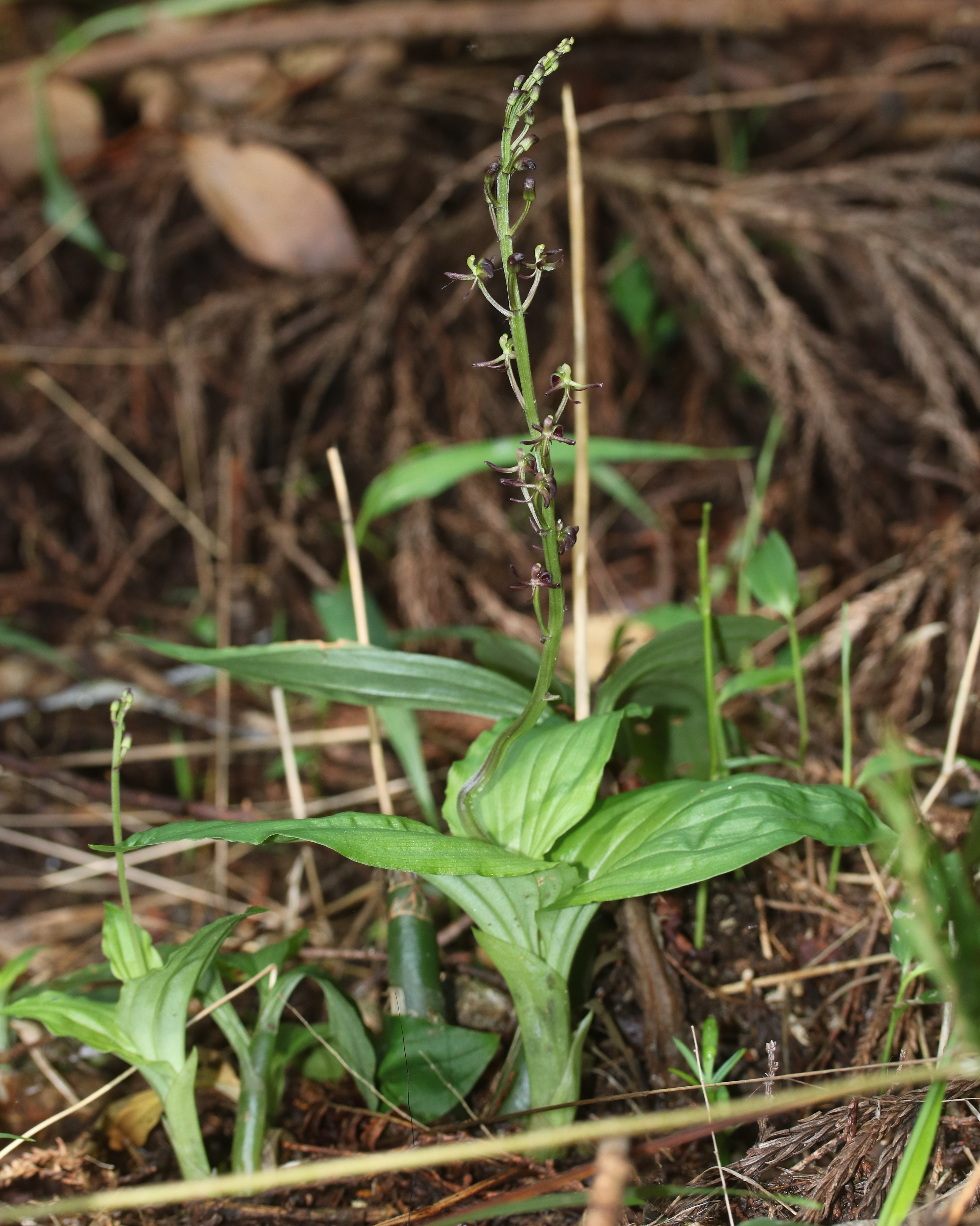 Liparis nervosa in Yumihari Mountains, Toyohashi, Aichi Prefecture, Japan.